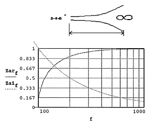 Acoustical impedance of endless horn with MathCad 3.1